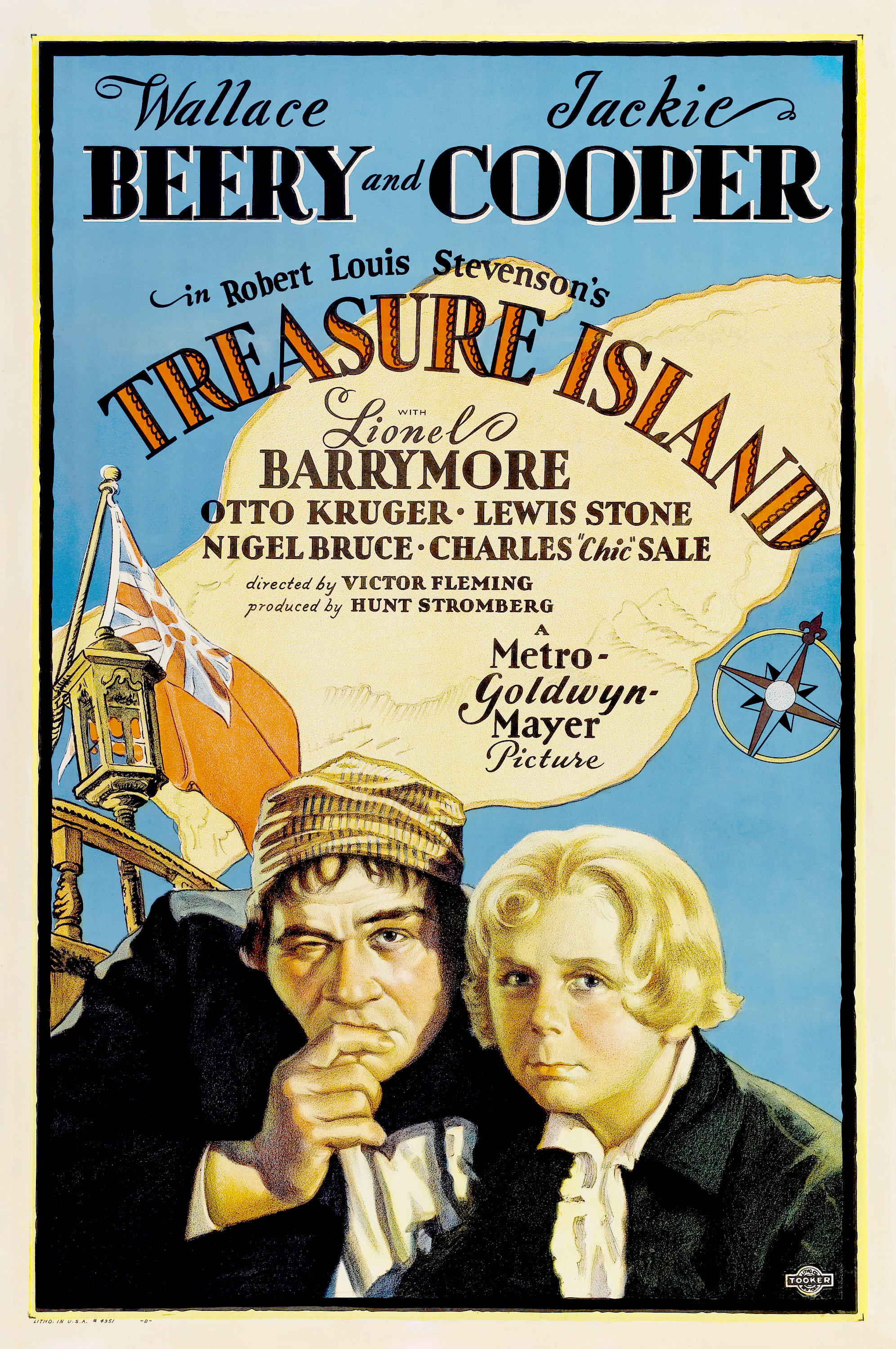 Theatrical poster for Treasure Island